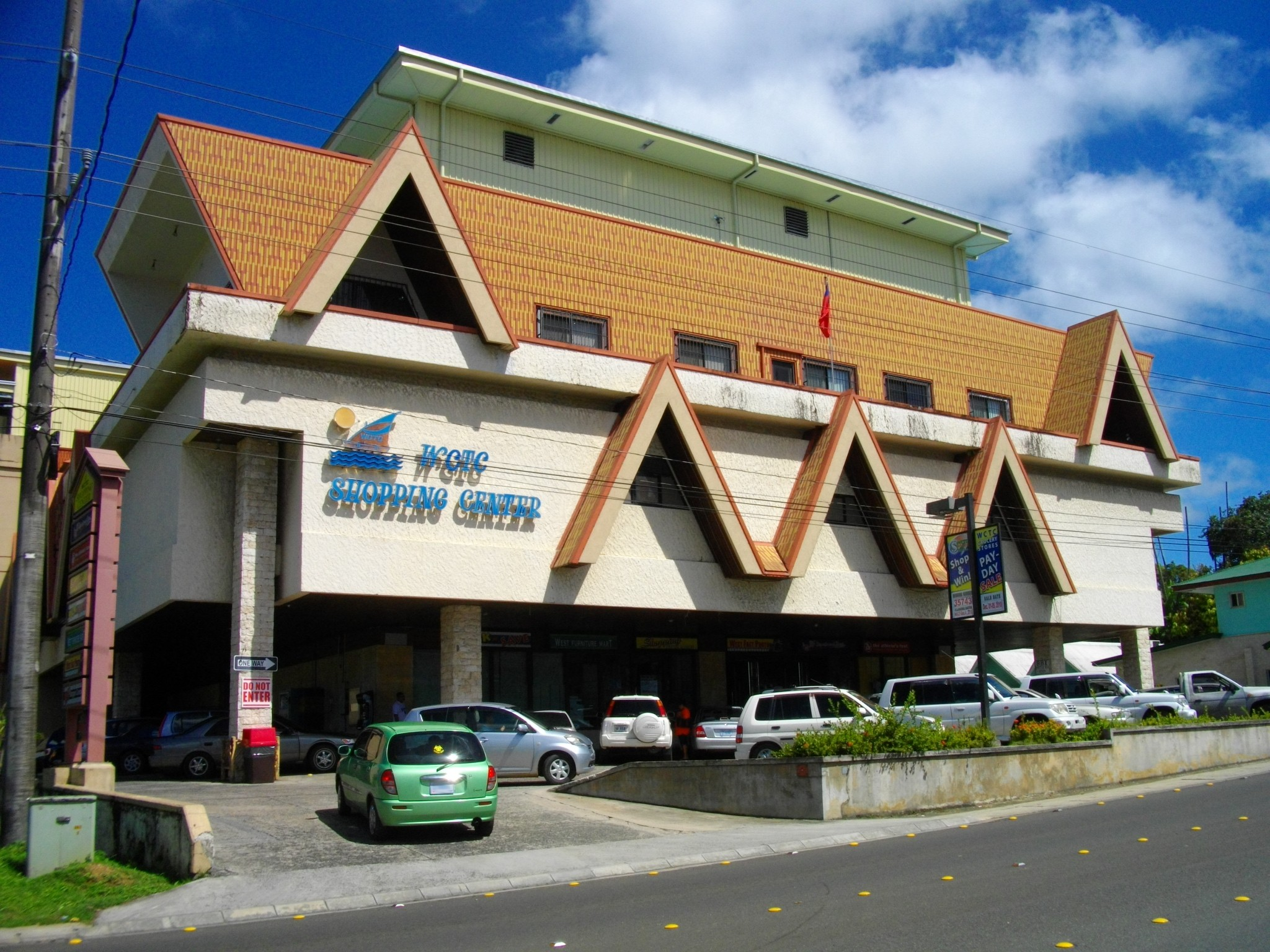 WCTC Shopping Center